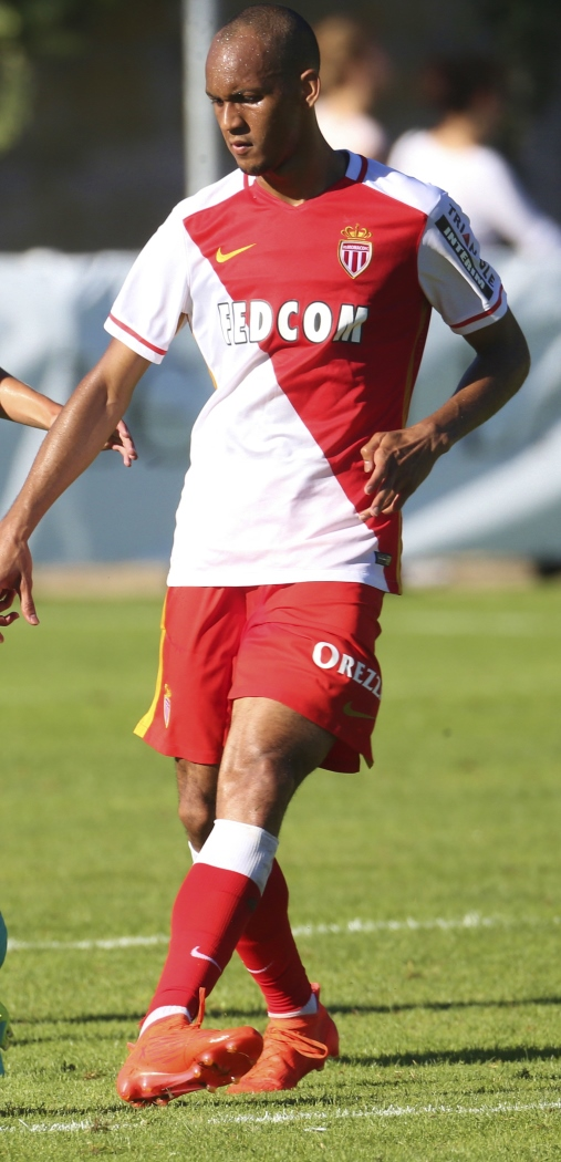 Fabinho